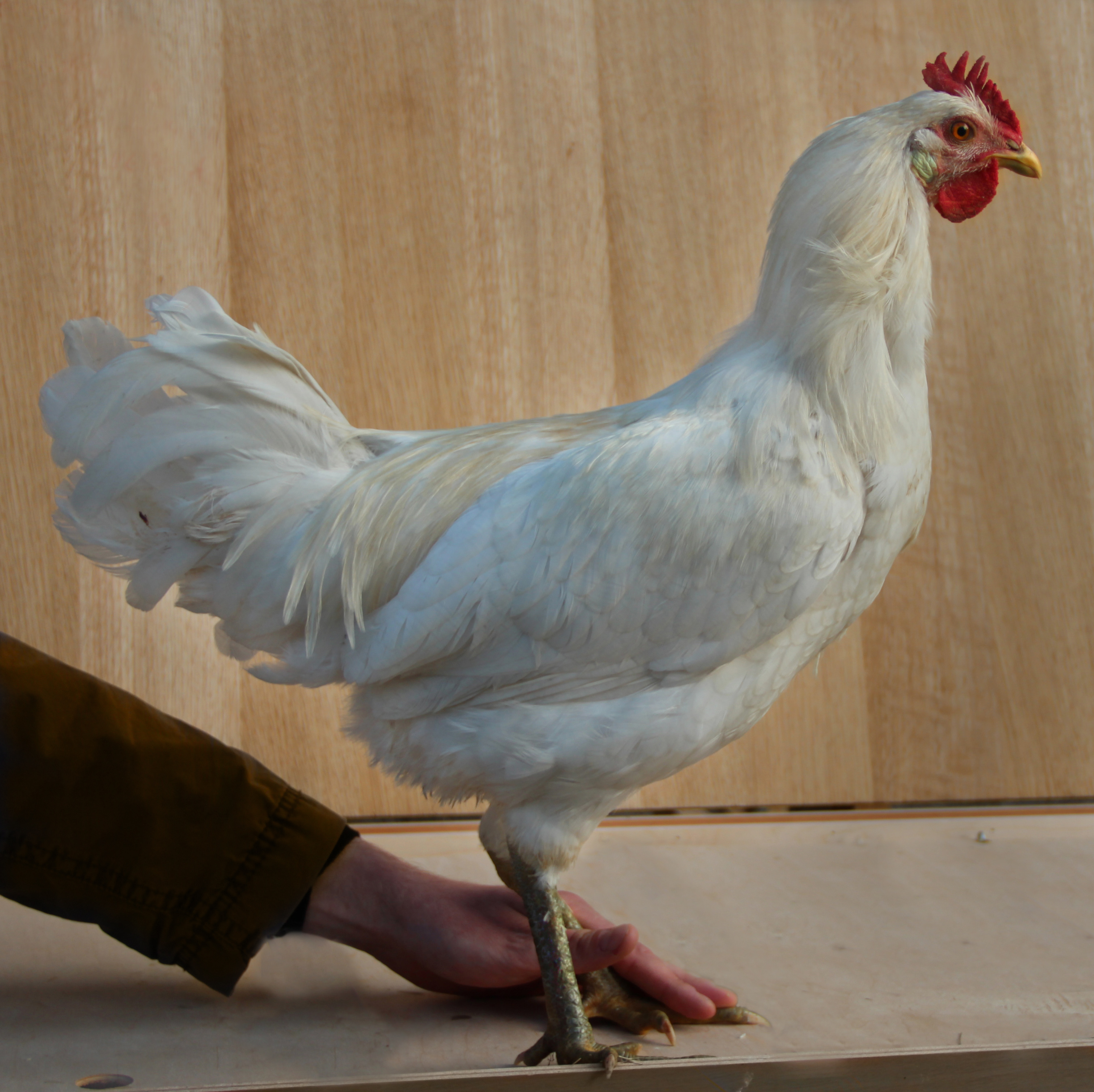 Bosnian or Berat longcrower